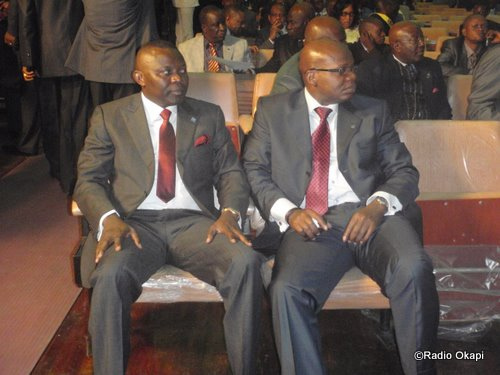 Vital Kamerhe and Thomas Luhaka